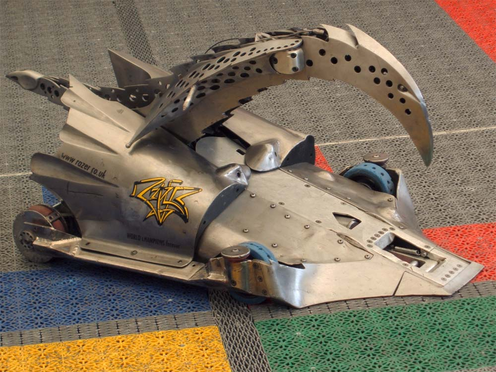 Razer, twice world champion on the British television programme Robot Wars.